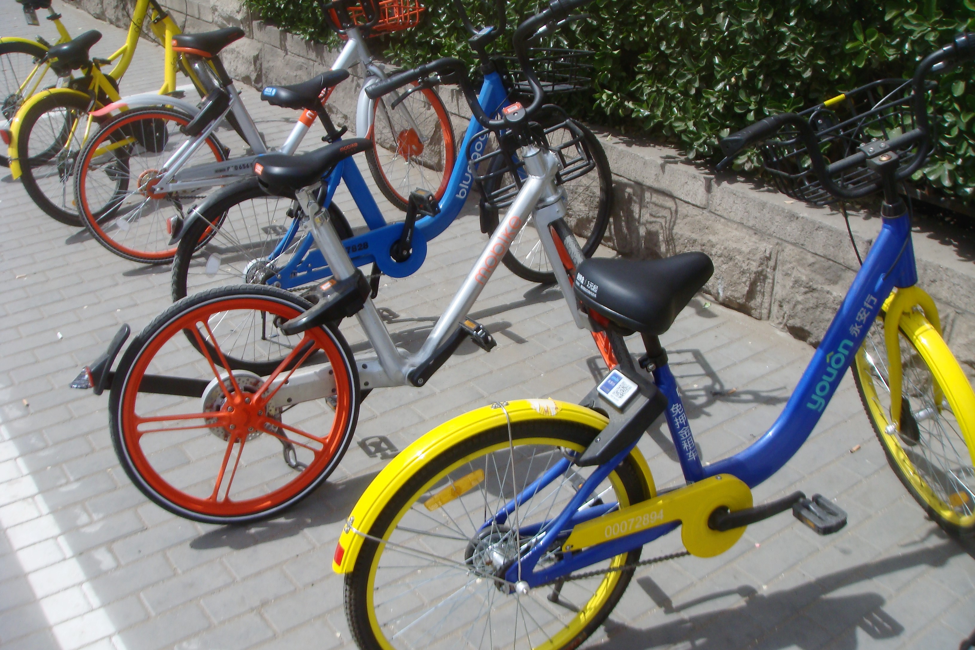 Youon, Mobike Classic, Bluegogo, Mobike Lite, and Ofo stationless rental bicycles in Beijing